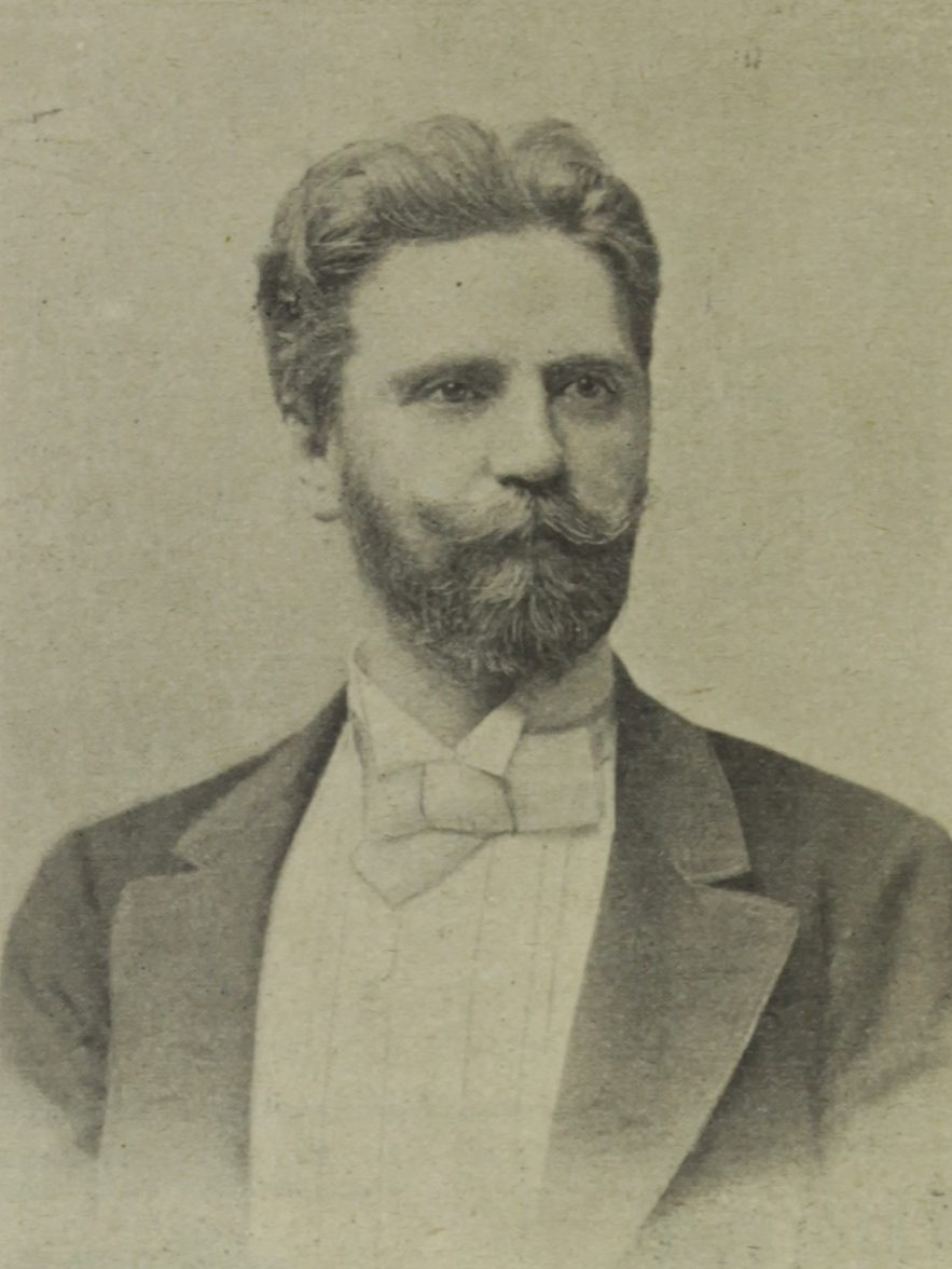 Anton Rückauf (1855–1903), Austrian composer, pianist and music pedagogue.